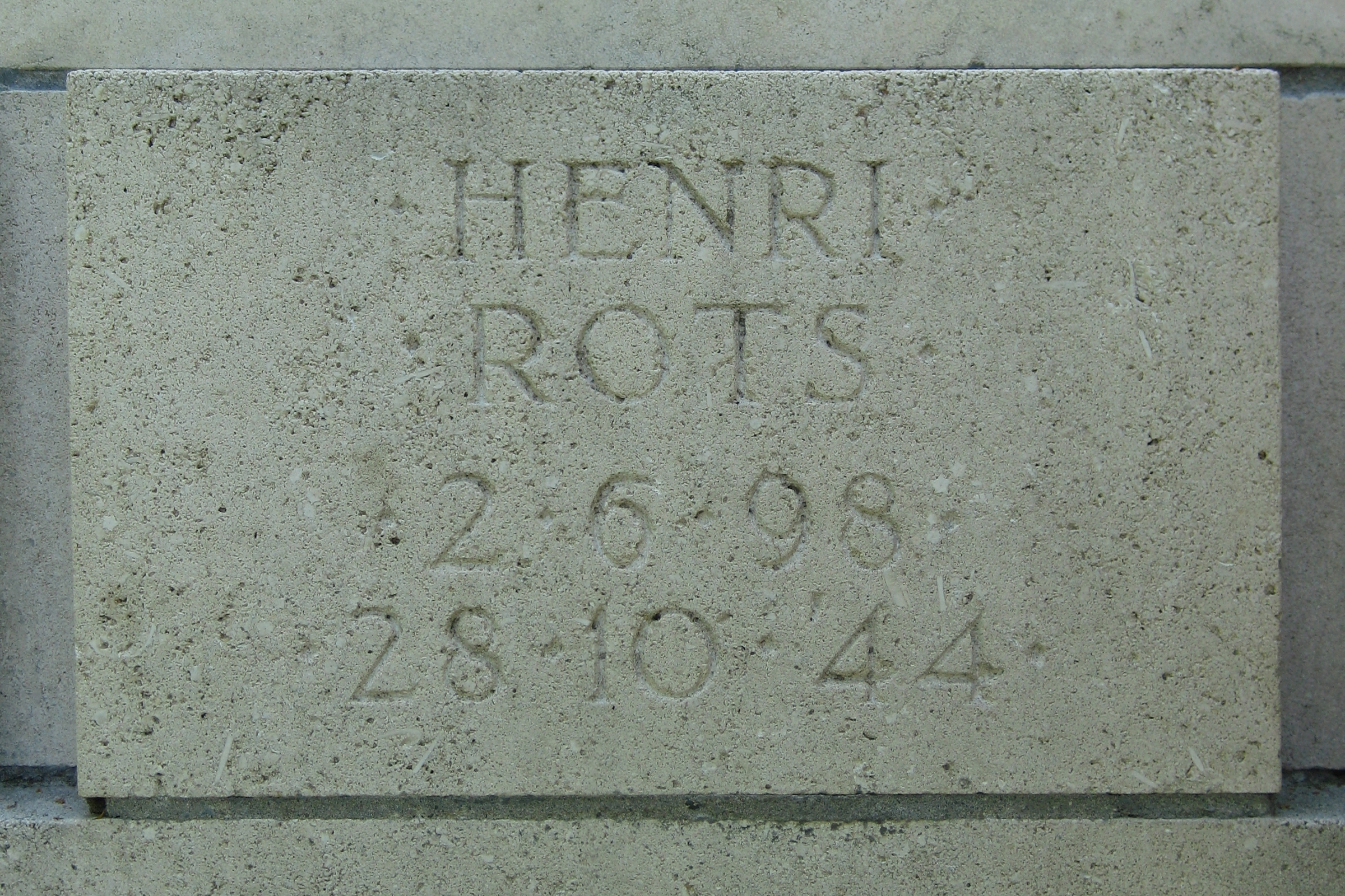 Commemorative plaque for the Dutch WW2 resistance fighter Henri Rots (1898-1944) on the war memorial at the Esserveld cemetery in the Dutch city of Groningen.